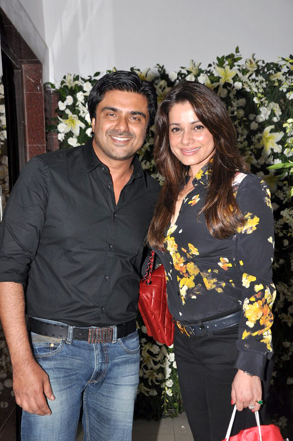 Sameer Soni,Neelam Kothari grace Kallista Spa opening